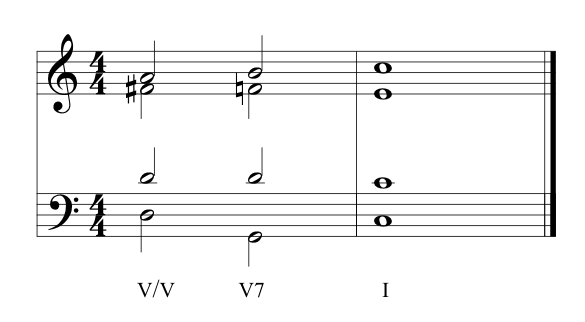 Secondary Dominant in C